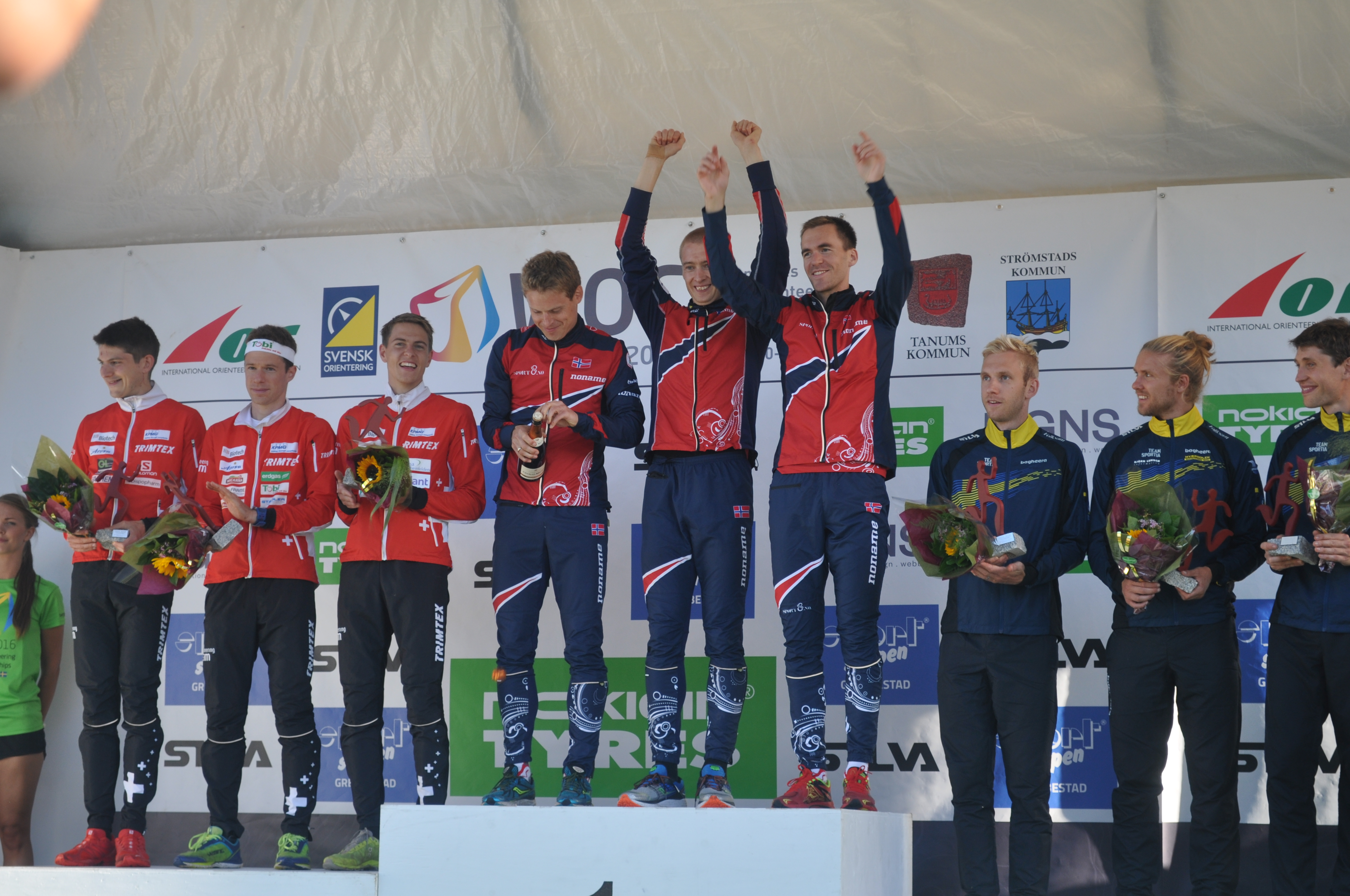 WOC 2016 Relay flower ceremony.